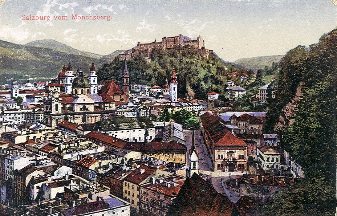 Postcard, undated ( ca.1914 ). Title: "Salzburg, seen from Mönchsberg".